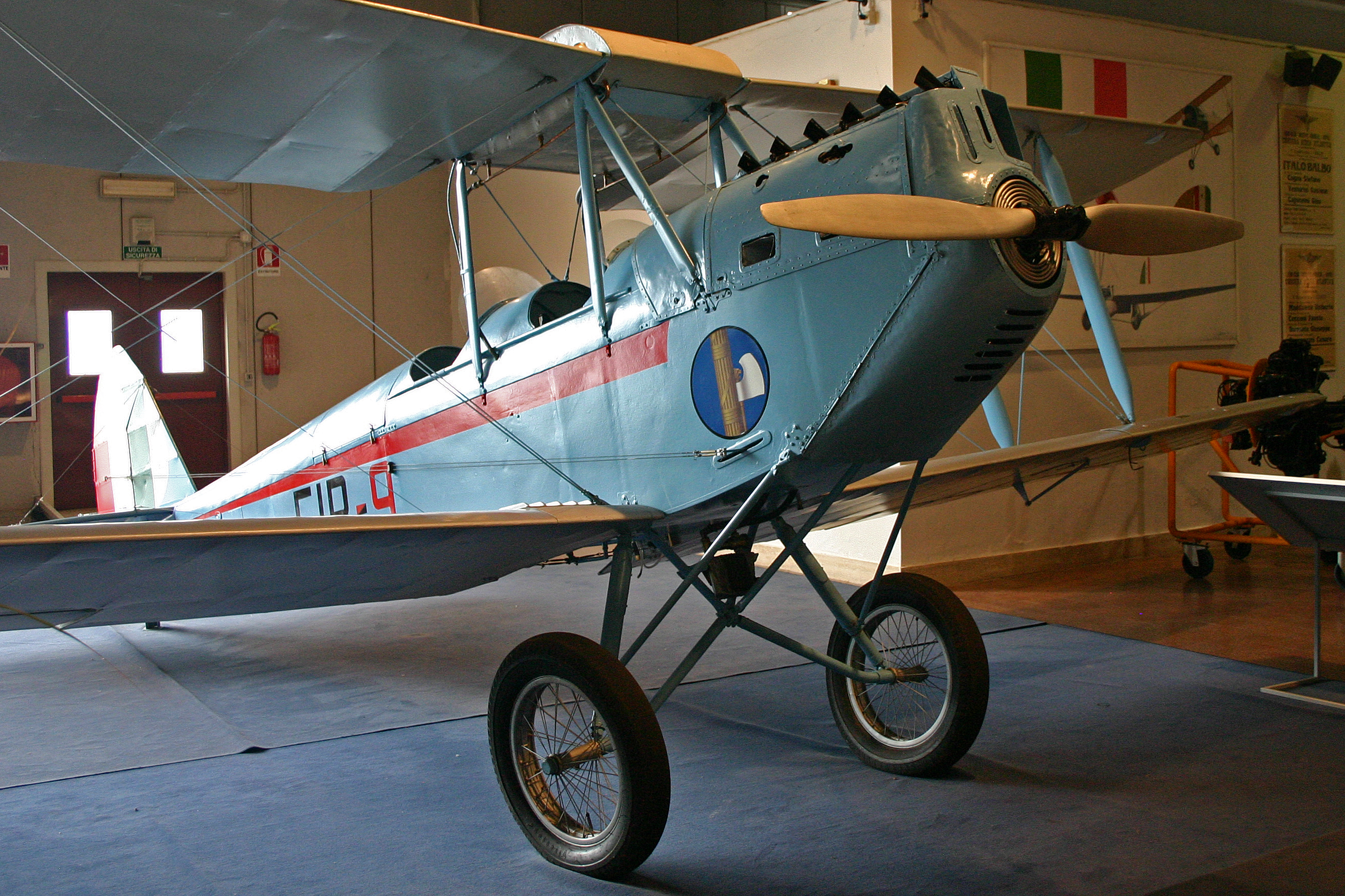 Displayed in Hangar VELO